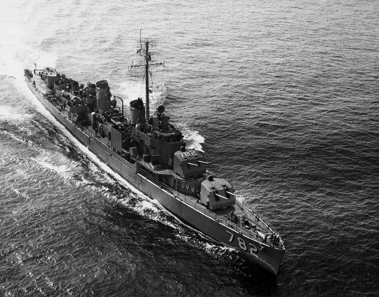 The U.S. Navy Gearing-class destroyer USS Rowan (DD-782) underway during the later 1940s or early 1950s. Note the SC radar on the masttop.